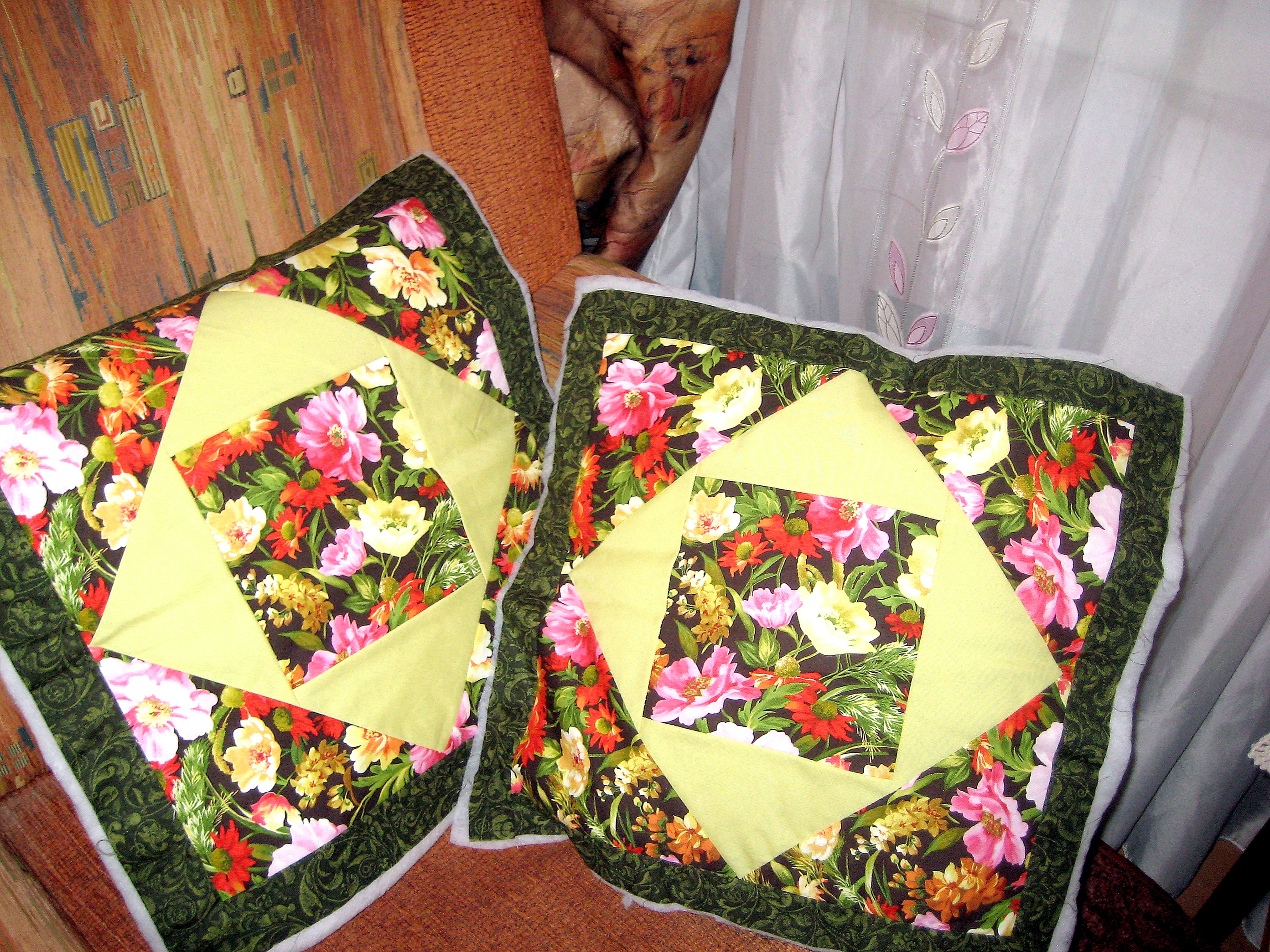 Patchwork. Author G.Aleksandrova